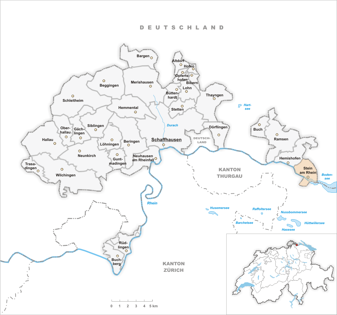 Municipality Stein am Rhein